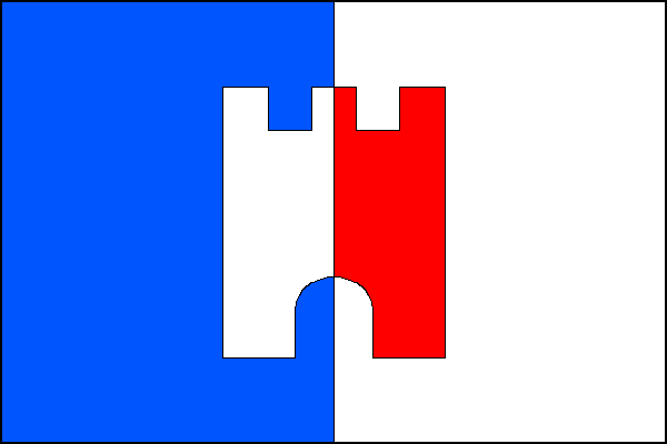 Flag of Veleň municipality, Prague-East District, Czech Republic.